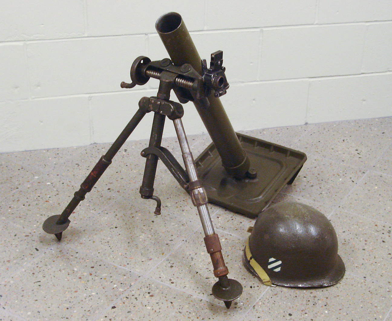 WWII era 60mm U.S. M2 Mortar, G.I. helmet shown for scale